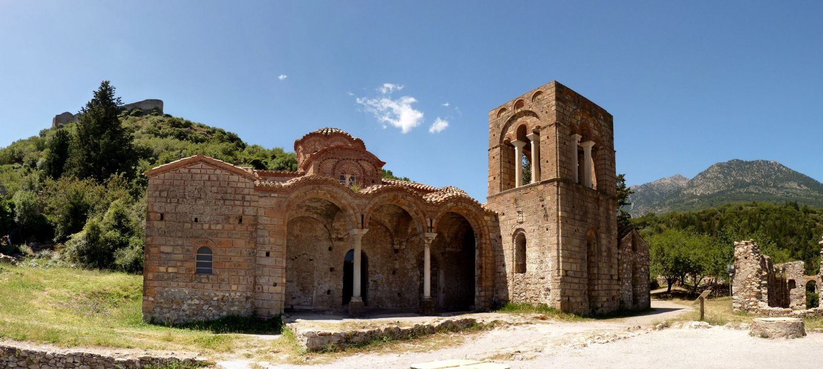 Mystras (Greek: Μυστράς, Μυζηθράς, Myzithras in the Chronicle of the Morea) is a fortified town and a former municipality in Laconia, Peloponnese, Greece. You can use the images for free. But a link to - I would be happy :)